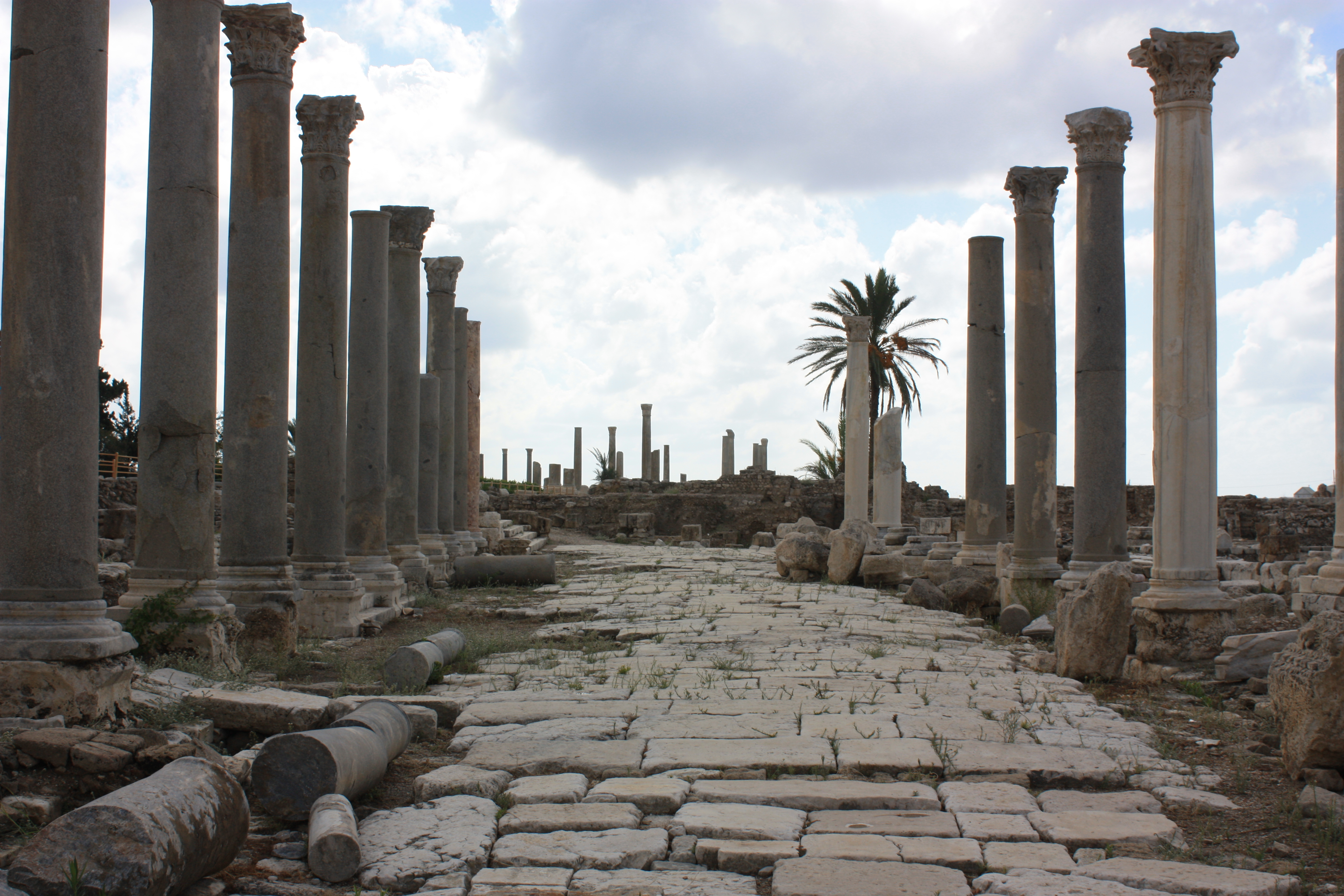 Tyre, mosaic street